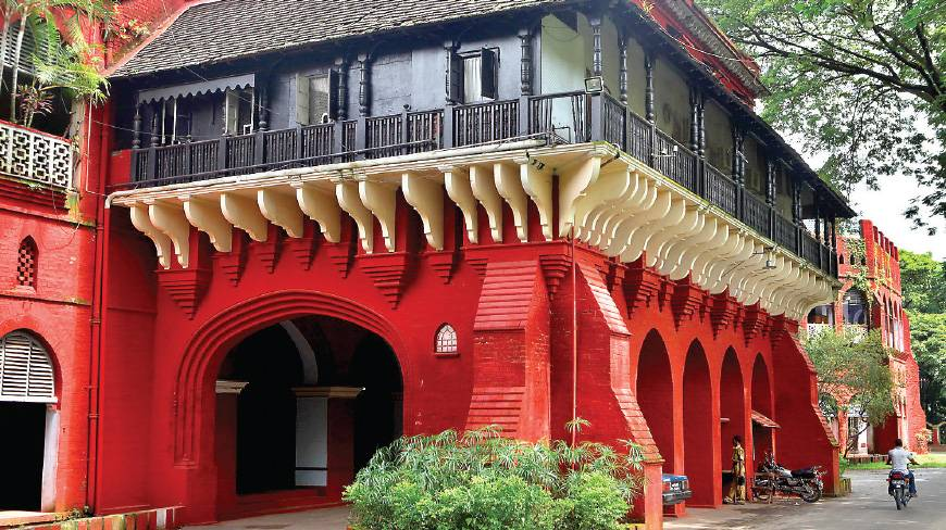 CRB Chittagong